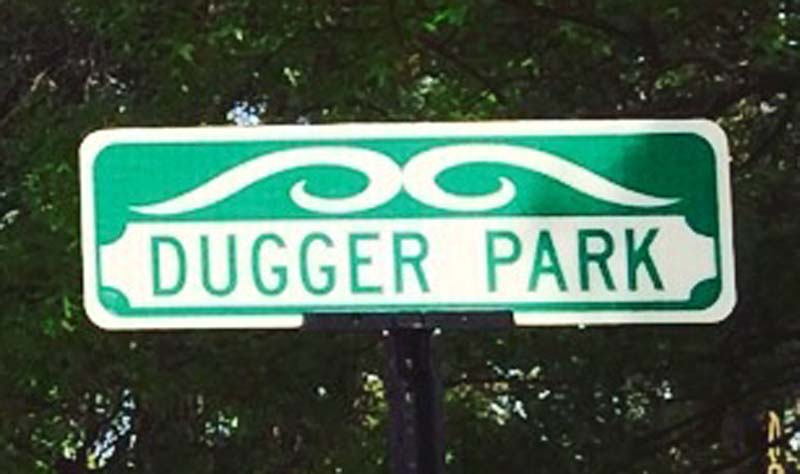 Green and White Street Sign with Flourishes for Dugger Park Medford Massachusetts